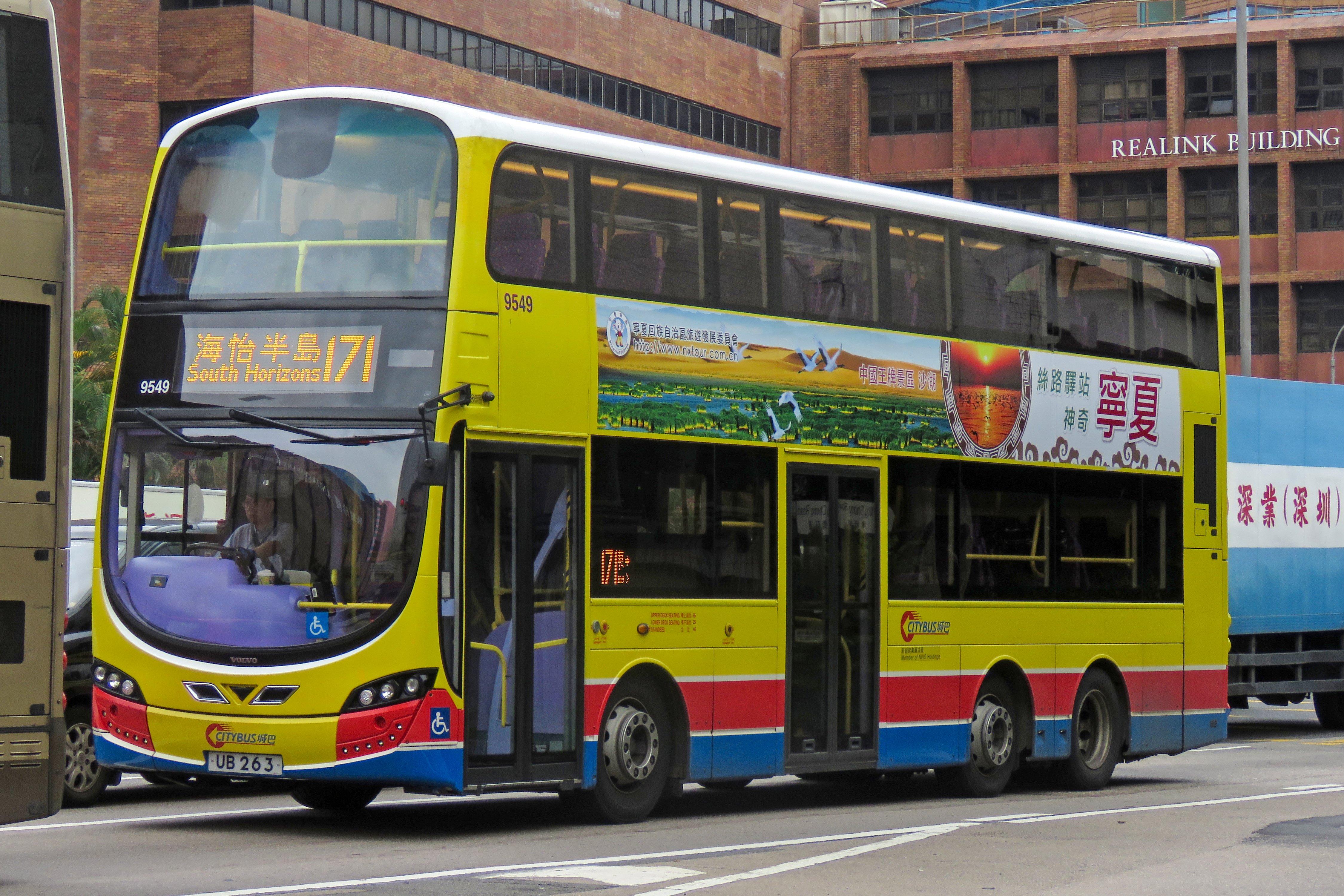 Shorter Wright with Ningxia promotional banner.